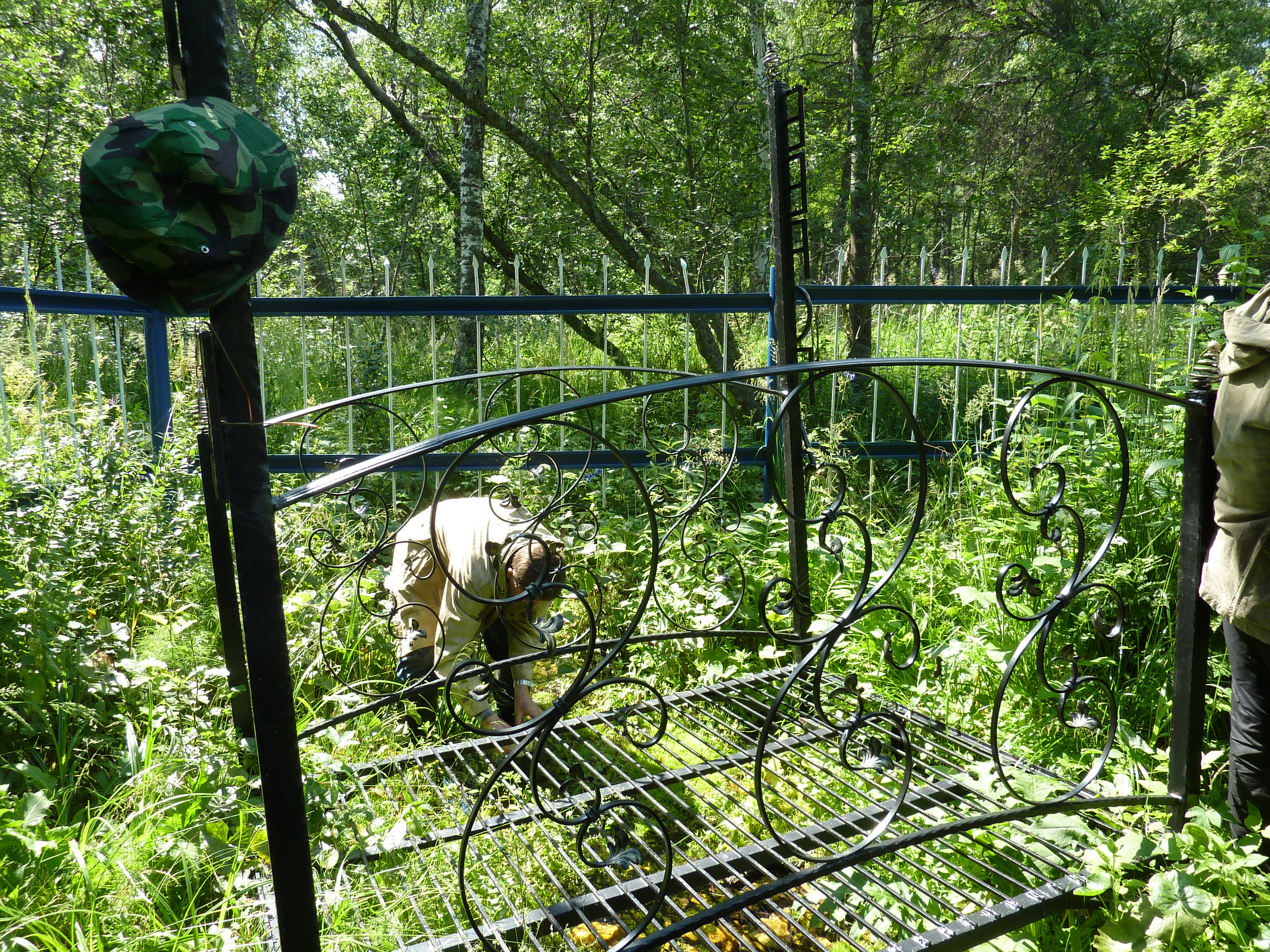 New iron bridge across the Ural River.